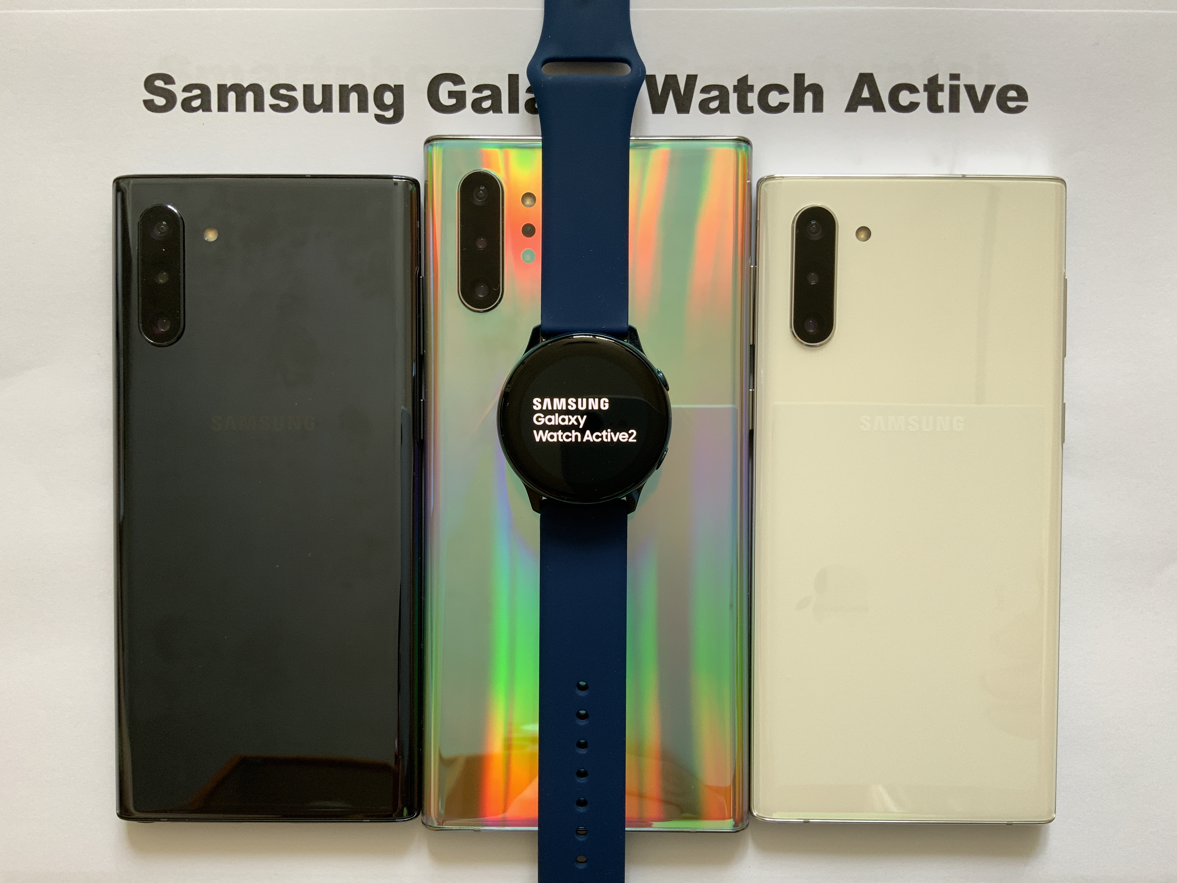 Samsung Galaxy Watch Active 2